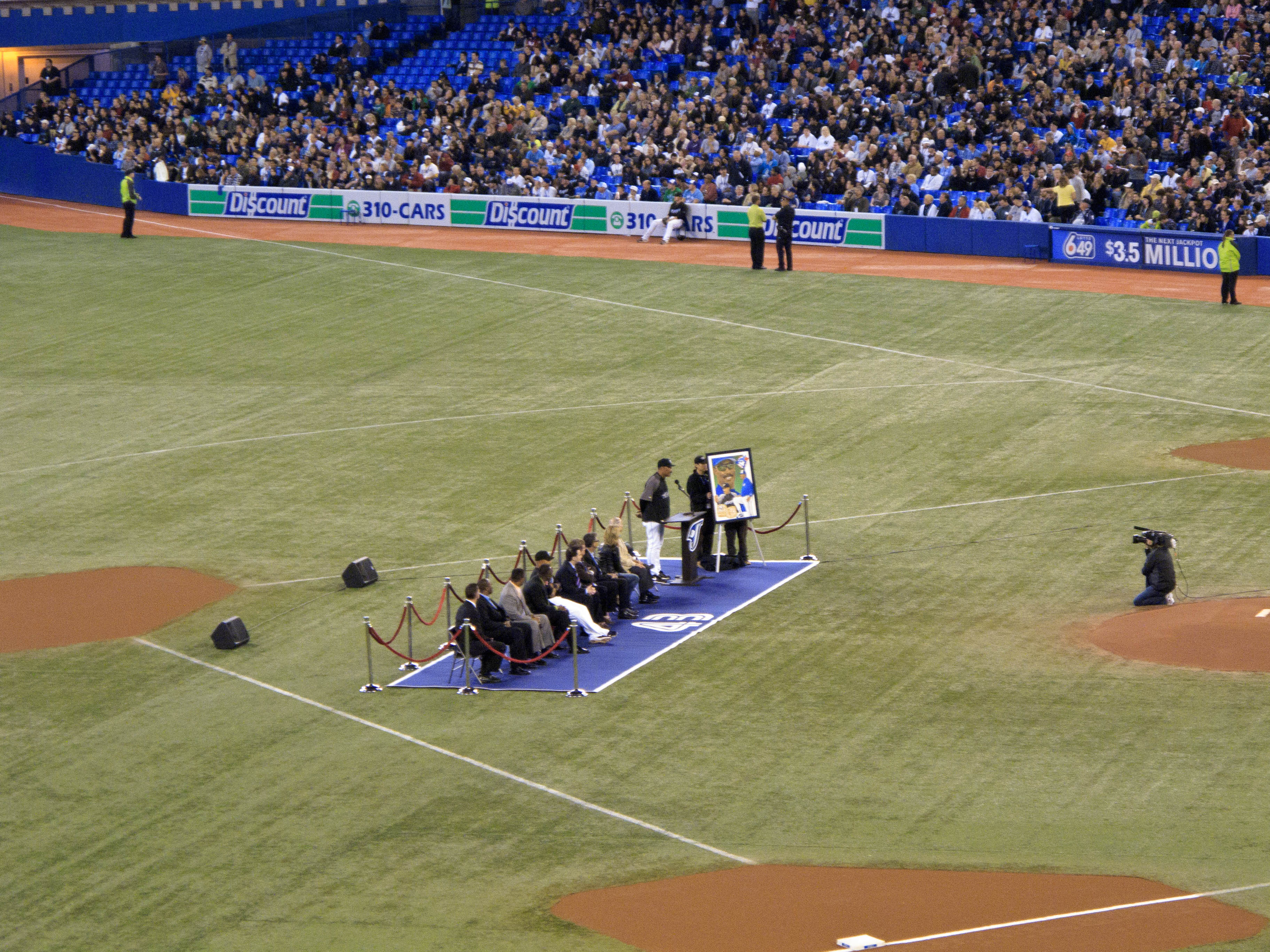 "Thank You Cito Night" - A farewell tribute to Cito Gaston from the Toronto Blue Jays at the Rogers Centre, Toronto, Ontario, Canada.